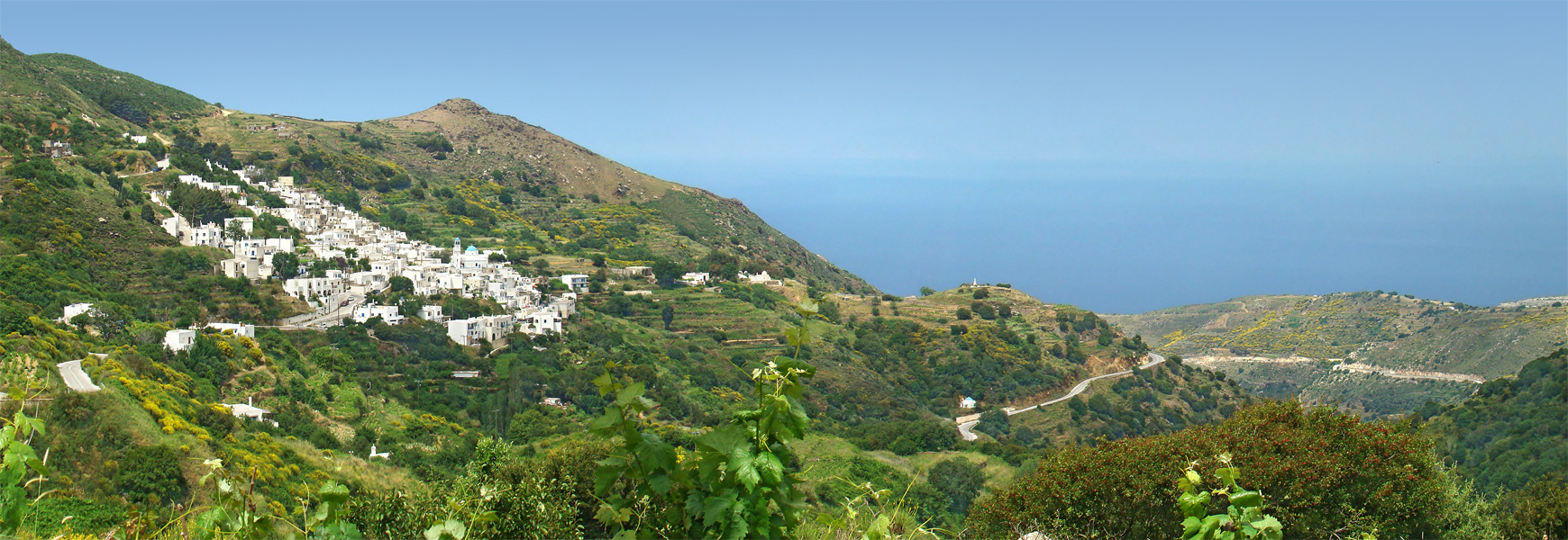 Koronida, Naxos, Greece.